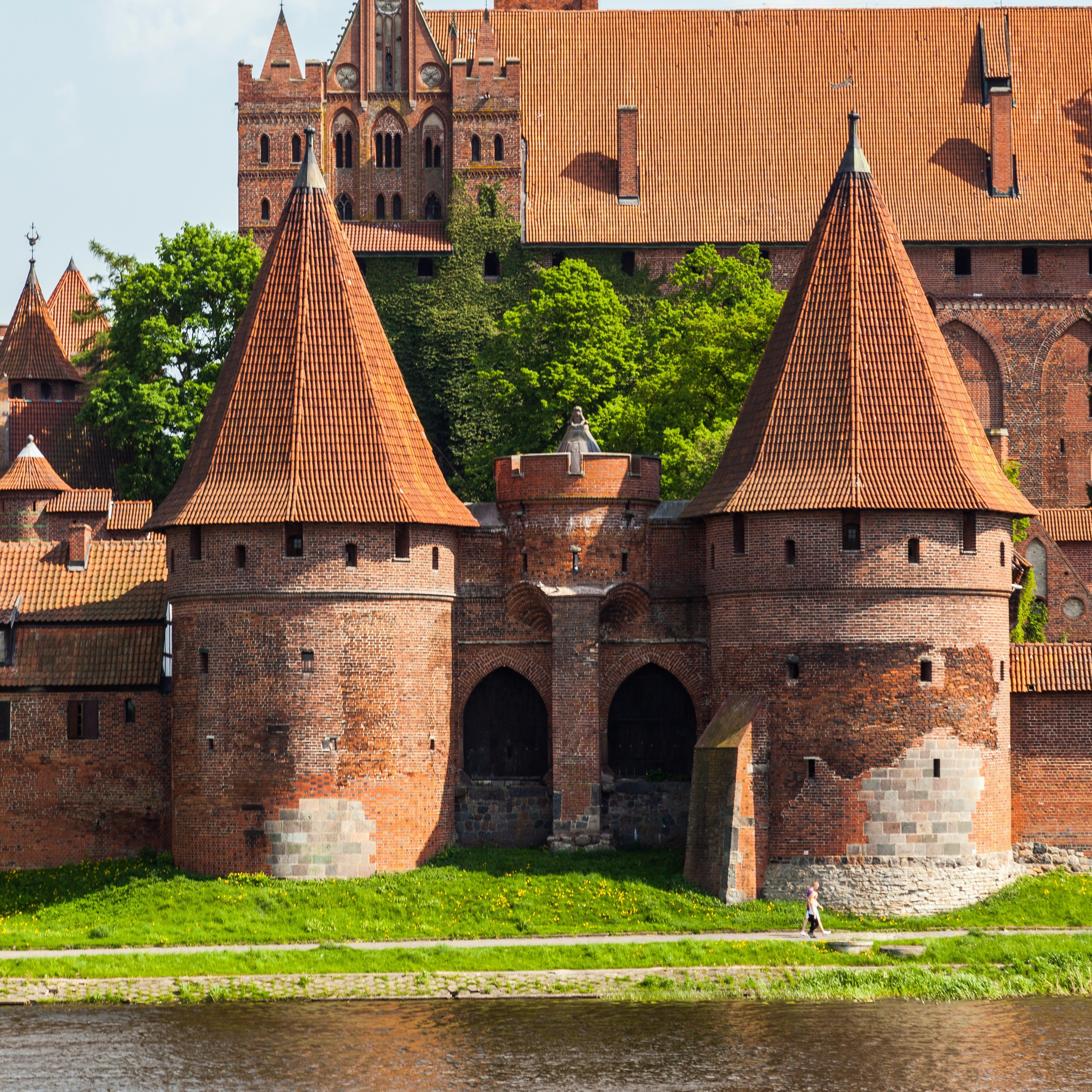 Malbork Castle, Poland